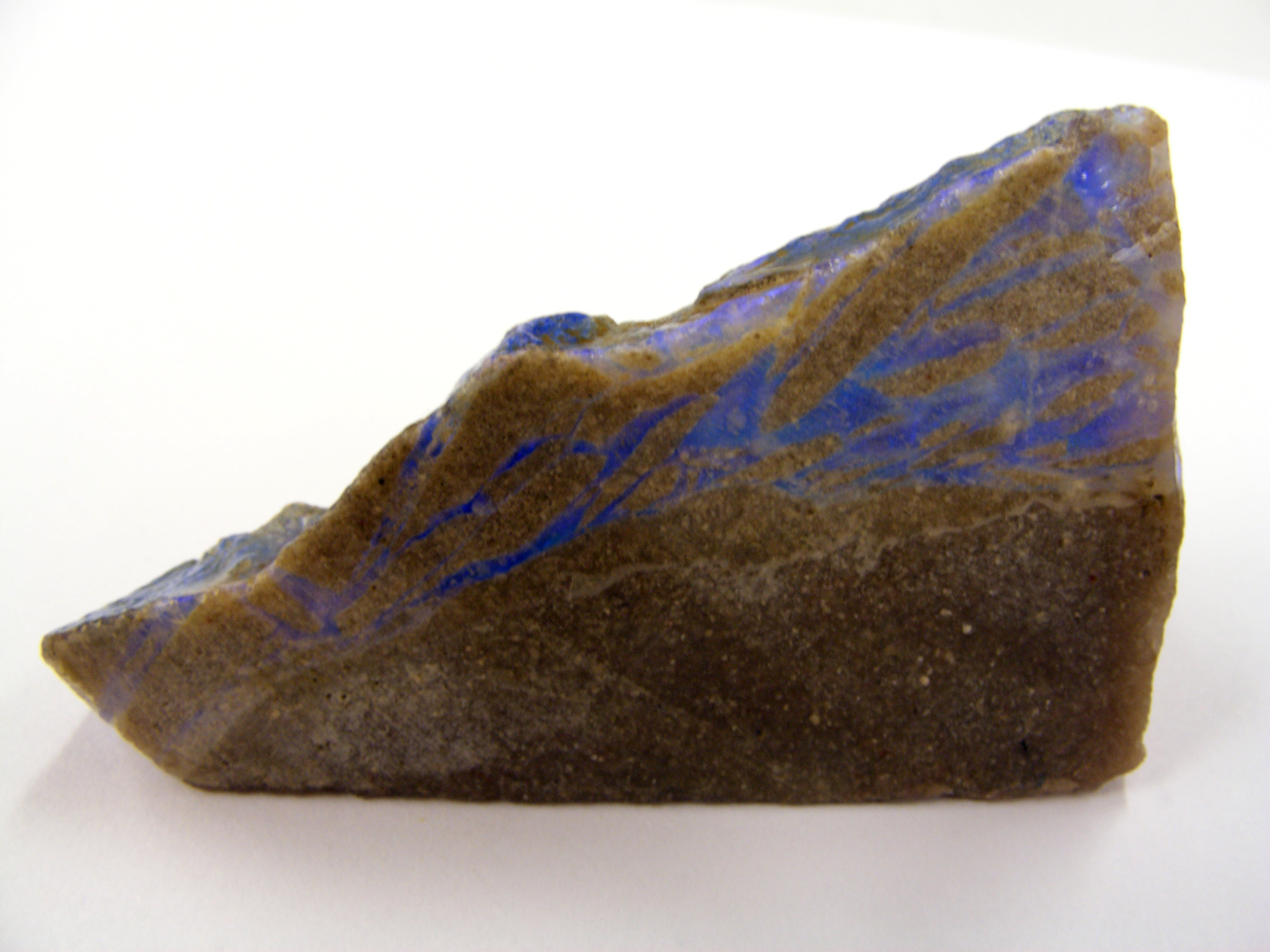 A rock with opal running through it that I found in Andamooka SA, while my husband and I were stationed in Woomera South Australia